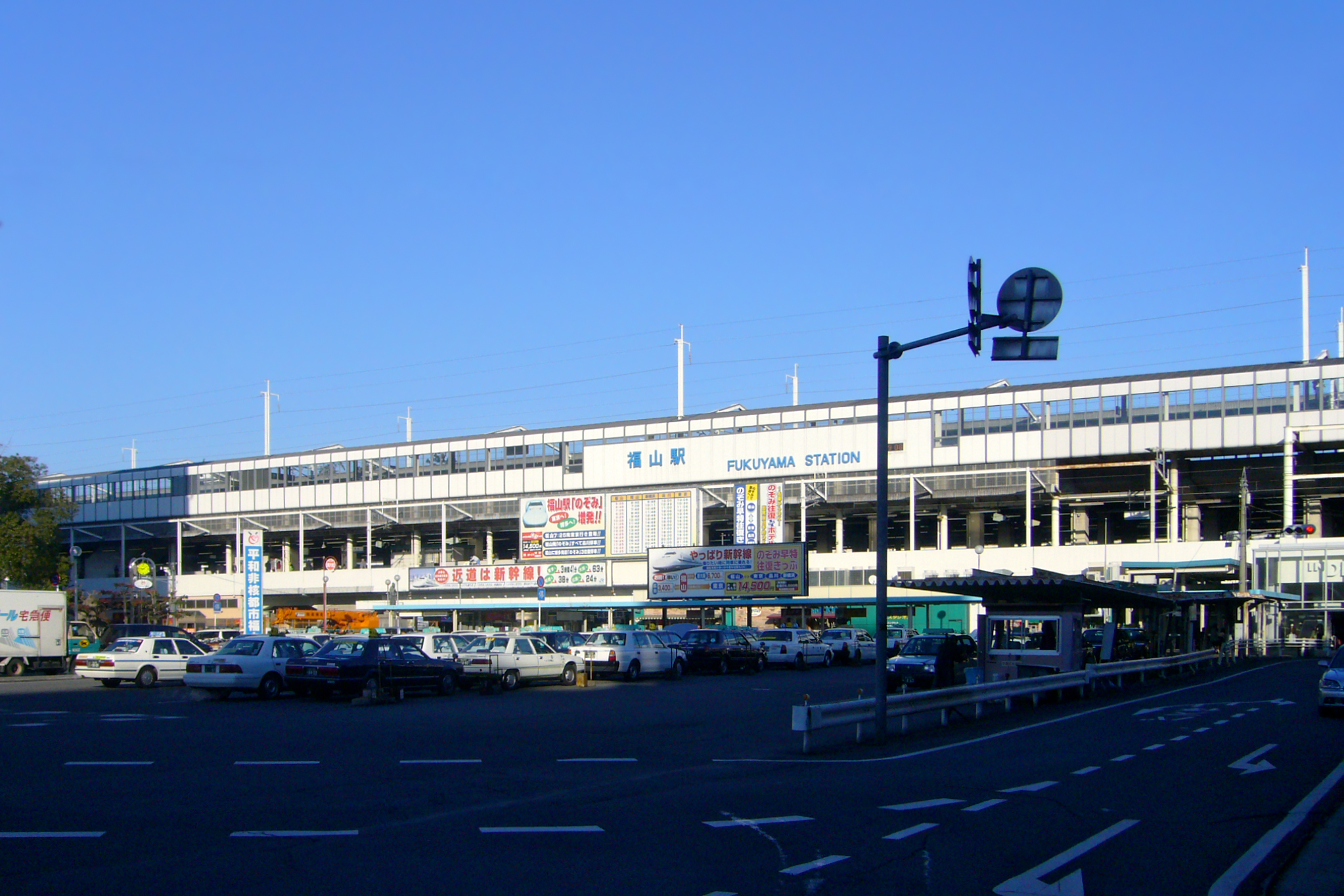 Fukuyama Station in Fukuyama, Hiroshima prefecture, Japan